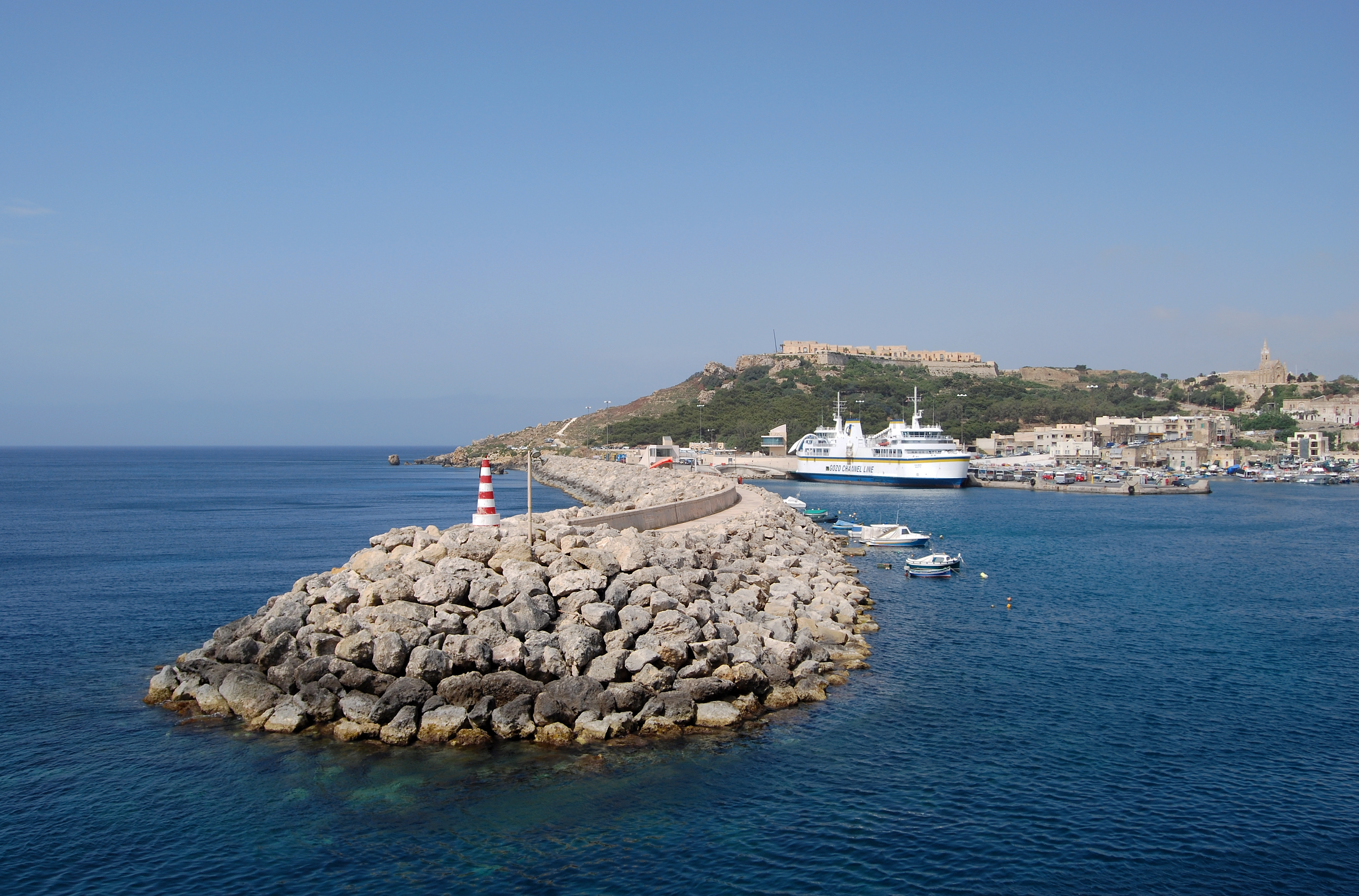 Arrival at the port of Mġarr (Gozo).